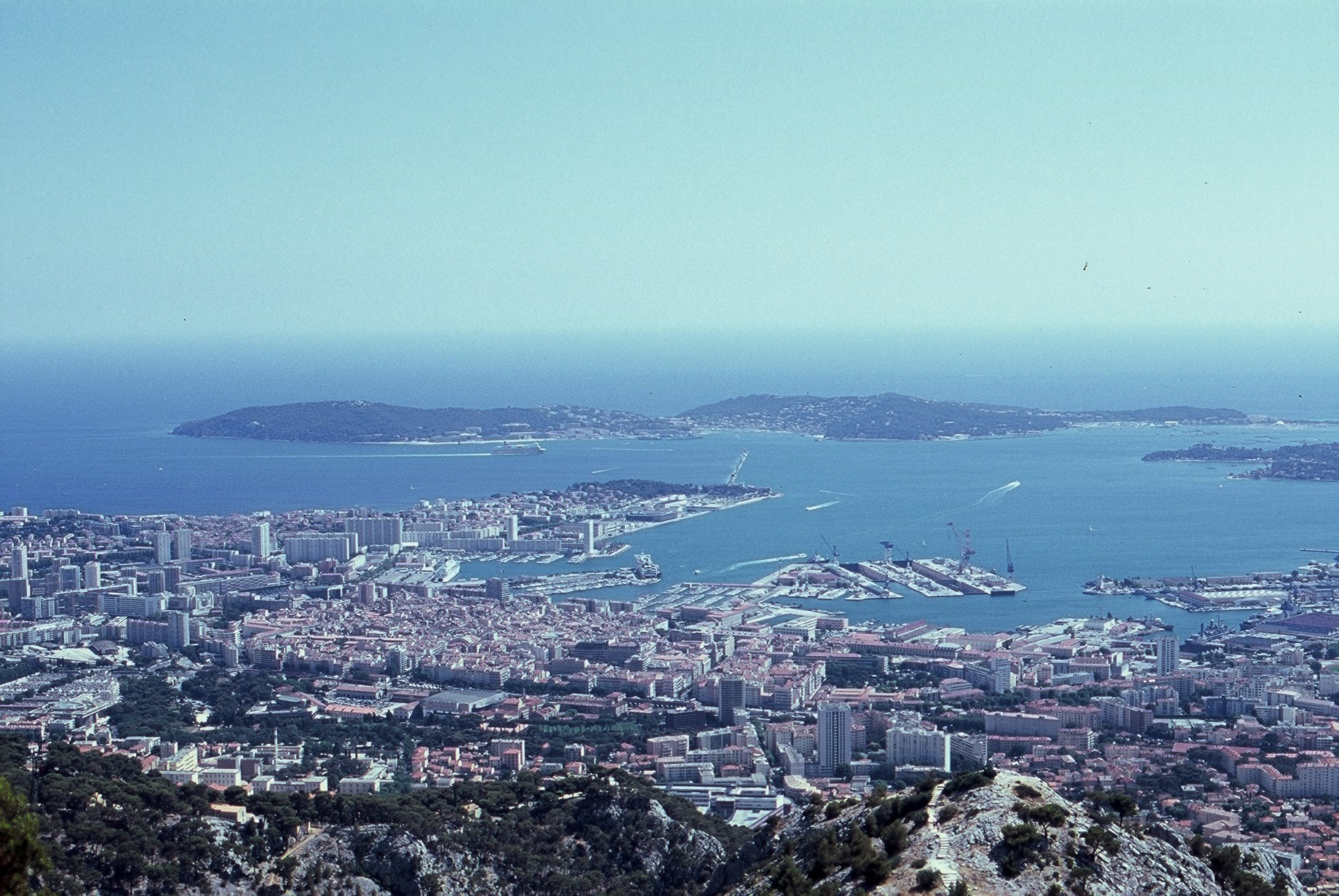 Saint-Mandrier-sur-Mer seen from Toulon.